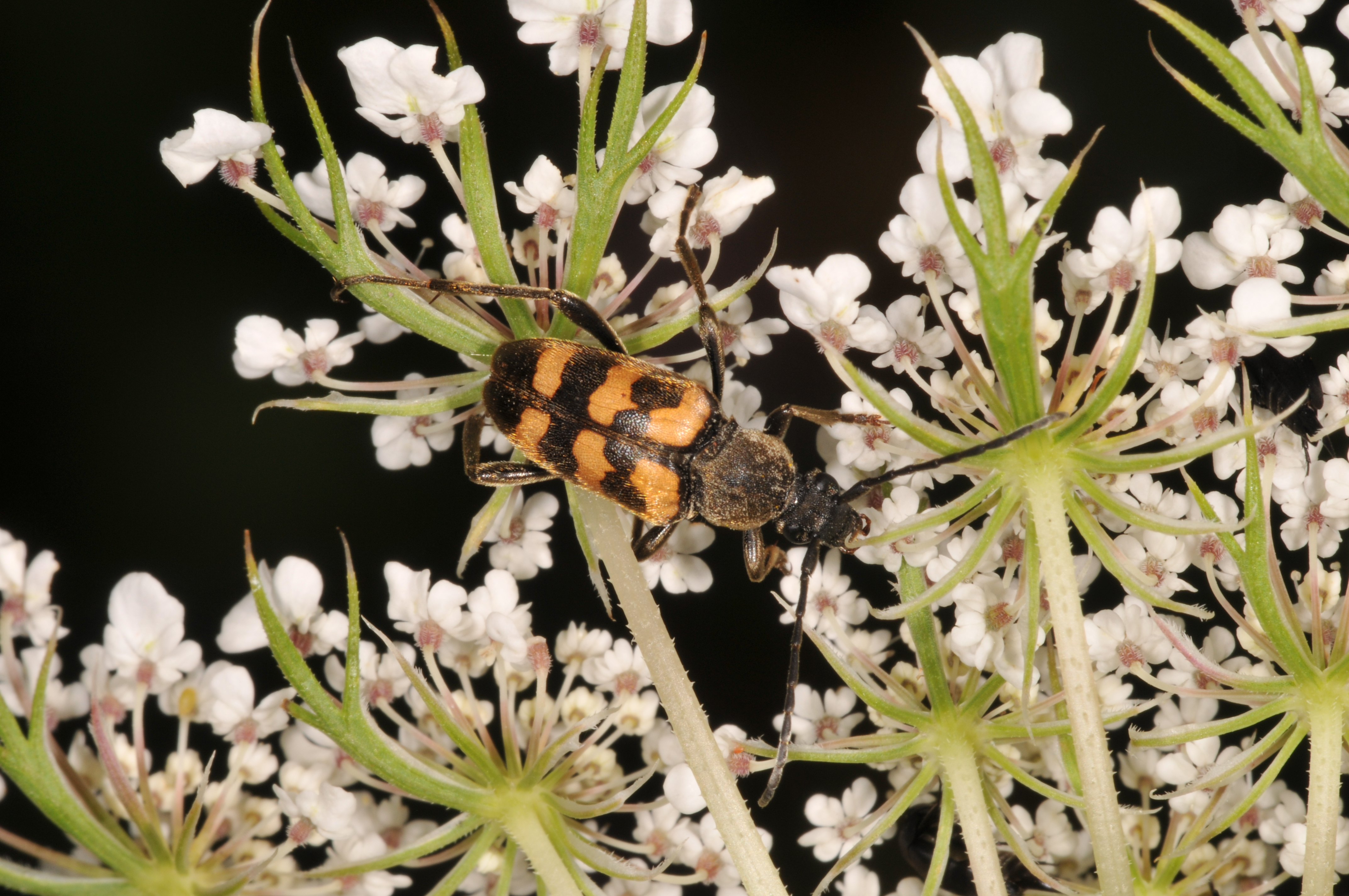 Pachytodes erraticus det. Siga, Croatia, Istria, Brseč 15 km south Lovran, 45°10`23,80``N 14°13`37,25``E